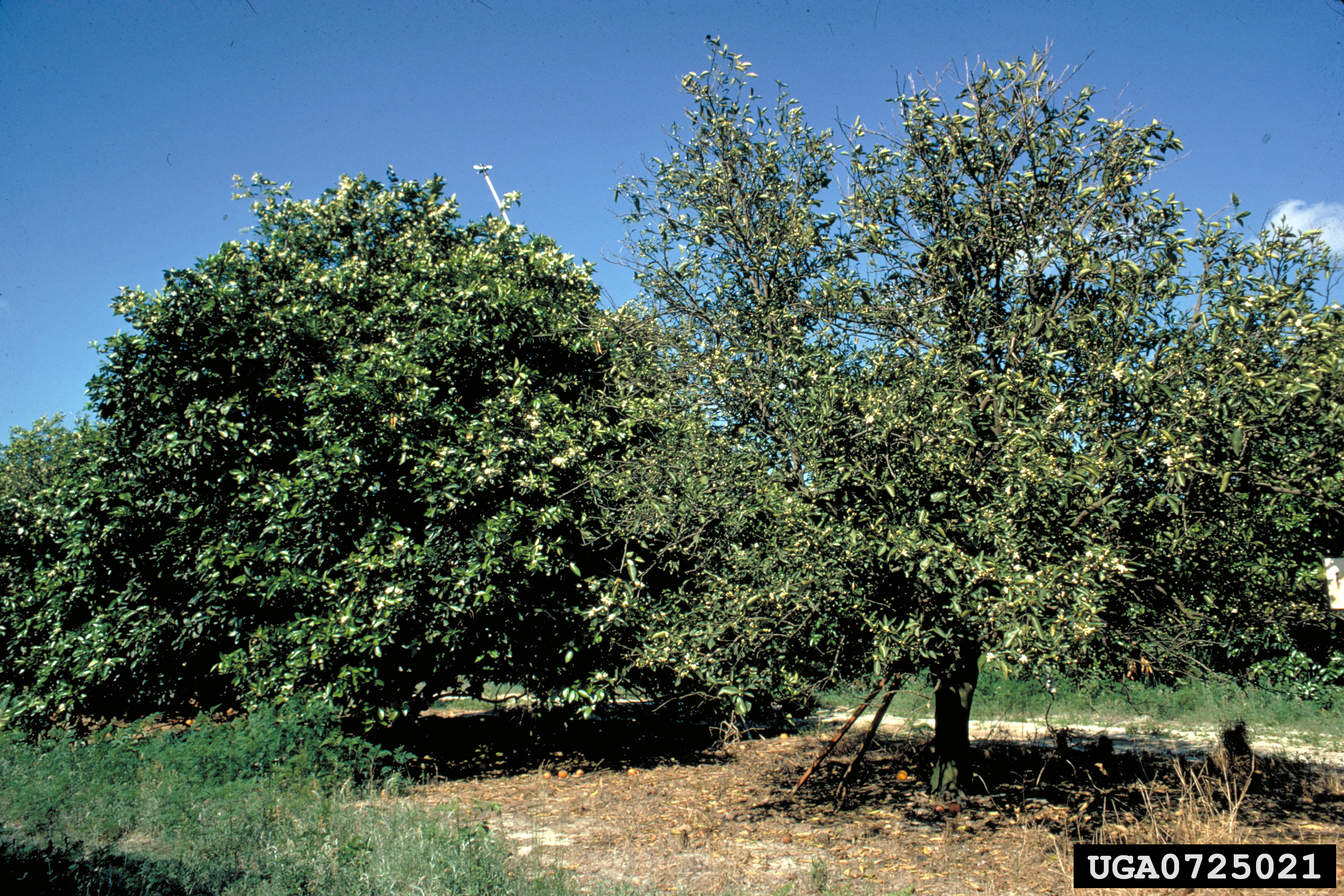 Example of a healthy tree next to a Citrus Blight infected, less productive tree. Photo courtesy of S.M. Garnsey USDA-ARS, Orlando (US)